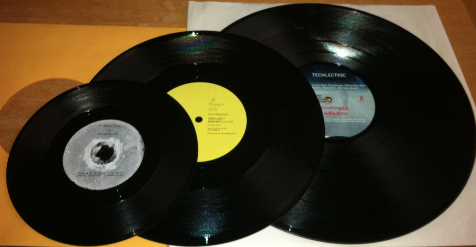 7" 10" 12" Dubplates